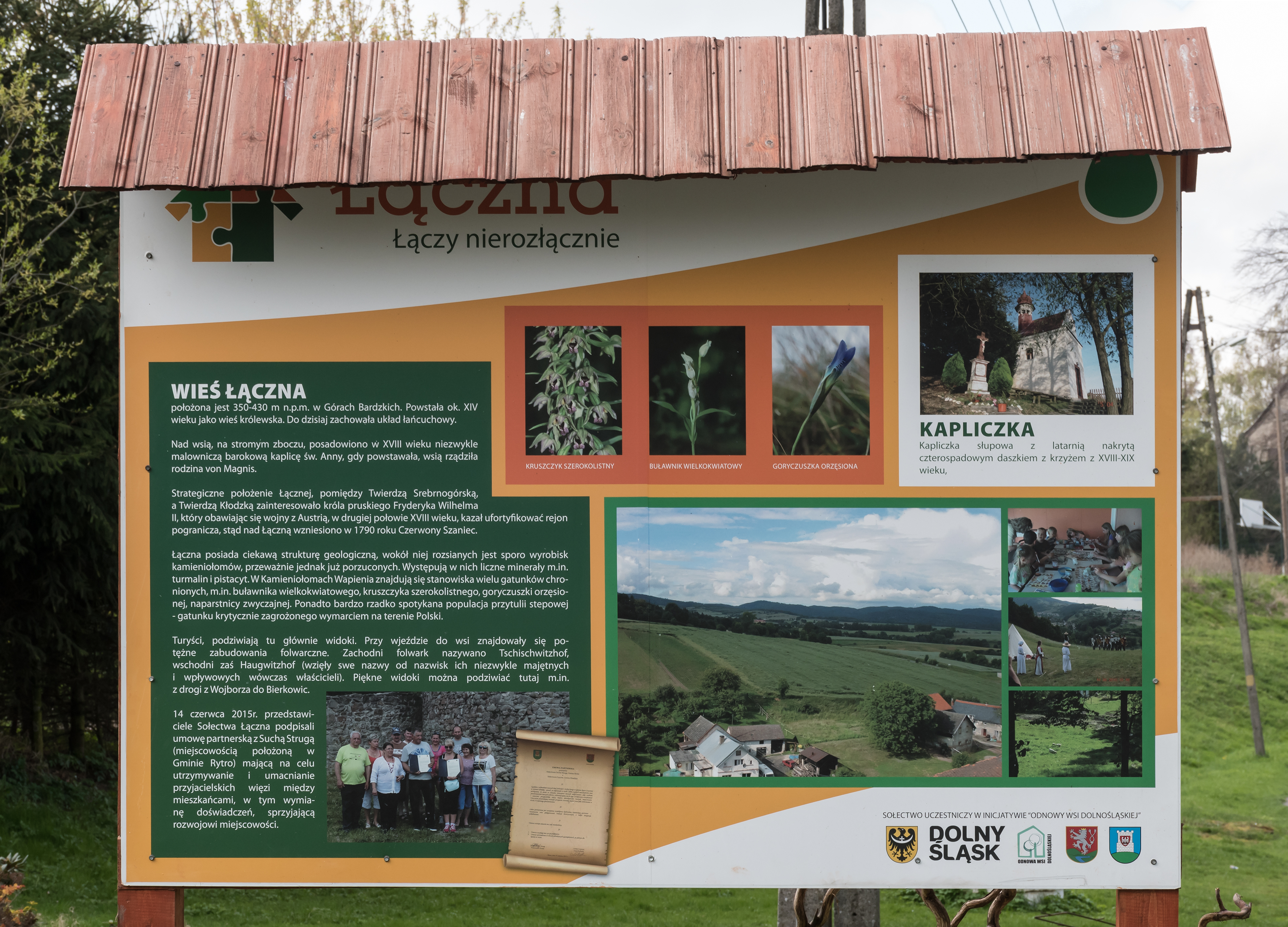 Information board in Łączna